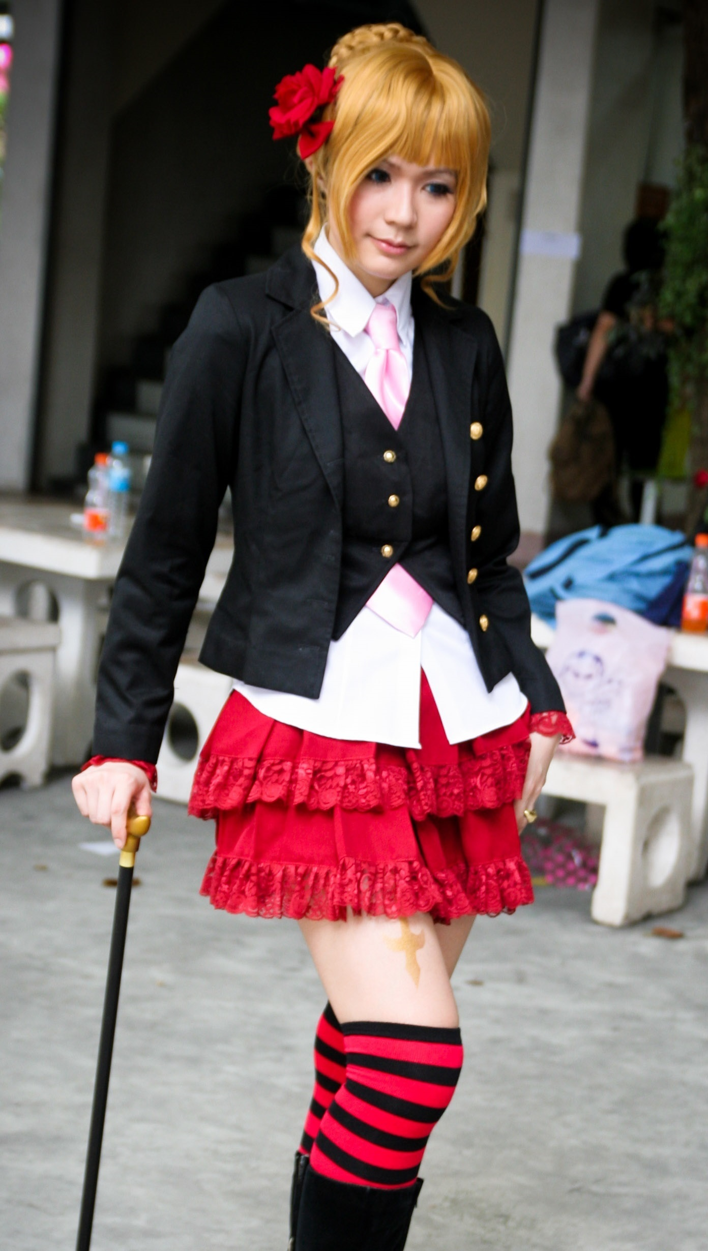 Umineko no Naku Koro Ni (from Capsule Event #12.999)